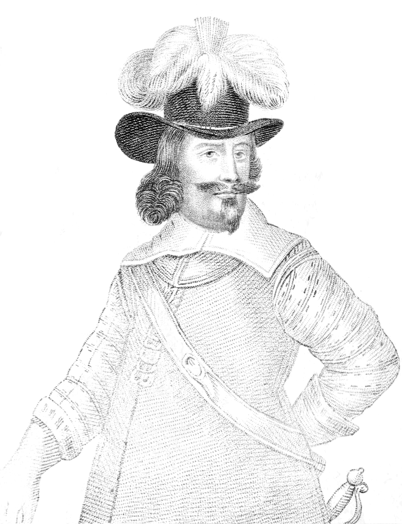 Plate of Vincent le Blanc, Volume 1 of Hudibras, by Samuel Butler, edited by Henry George Bohn